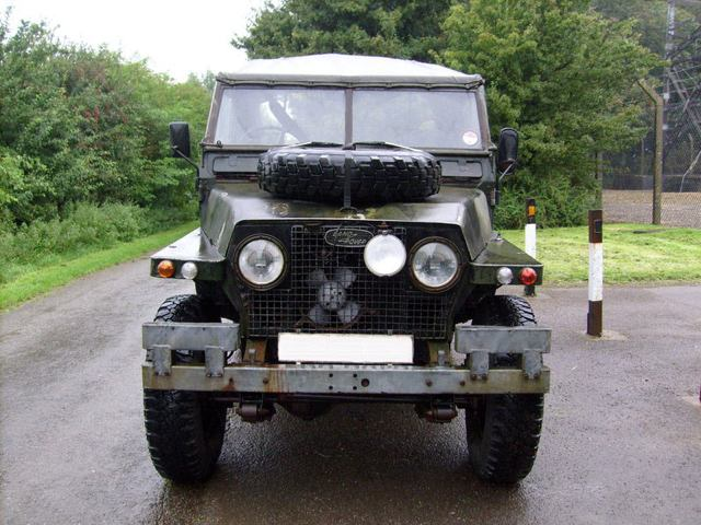 My 1/2-ton Lightweight SIIa Land Rover. Note that this vehicle is fitted with a non-standard (electric) fan and an additional non-standard spot-lamp.